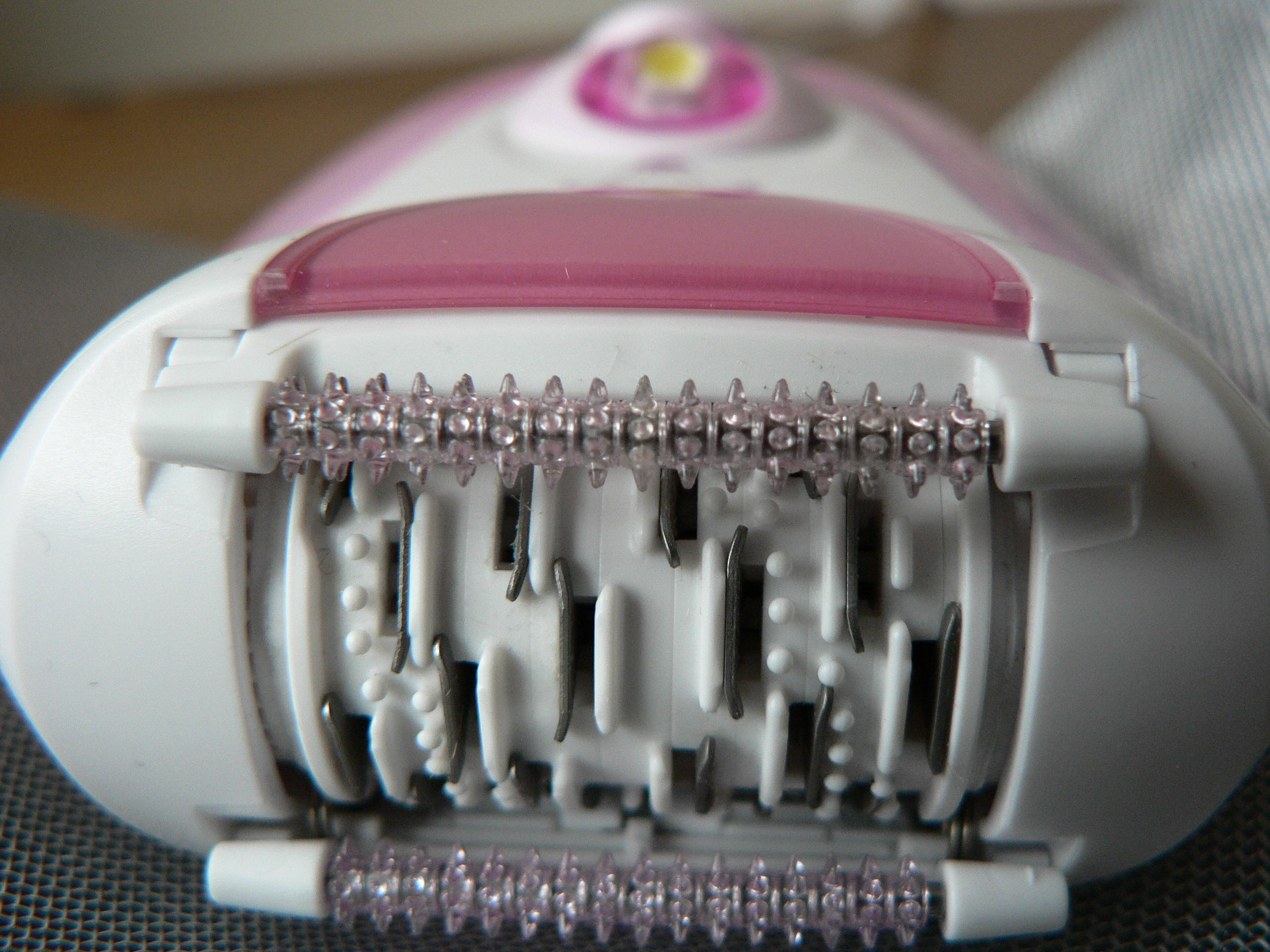 Epilator